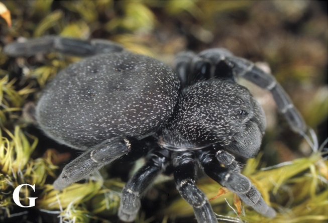 Eresus sandaliatus subadult female (near to Silkeborg Langsø, Enebærbakken, Denmark)